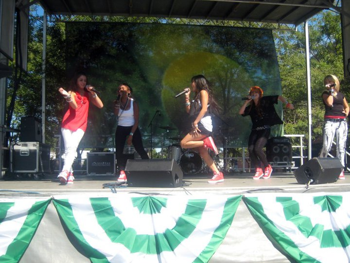 American girl group School Gyrls at an Arthur Ashe Kid's Day event